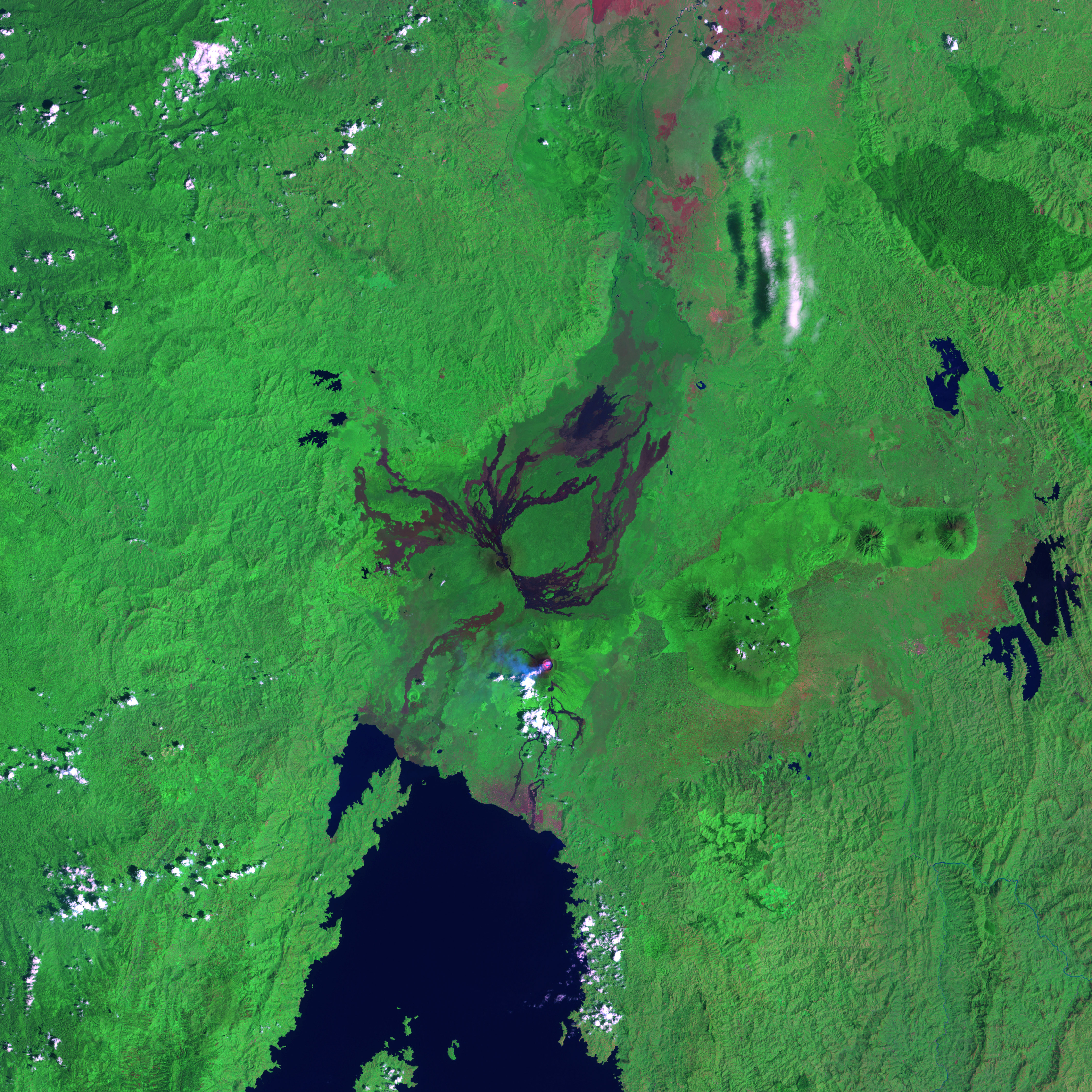 NASA’s Landsat 7 satellite captured this false-color image of Nyamuragira and Nyiragongo on January 31, 2007, about a year after Nyiragongo sent a devastating lava flow through the town of Goma.